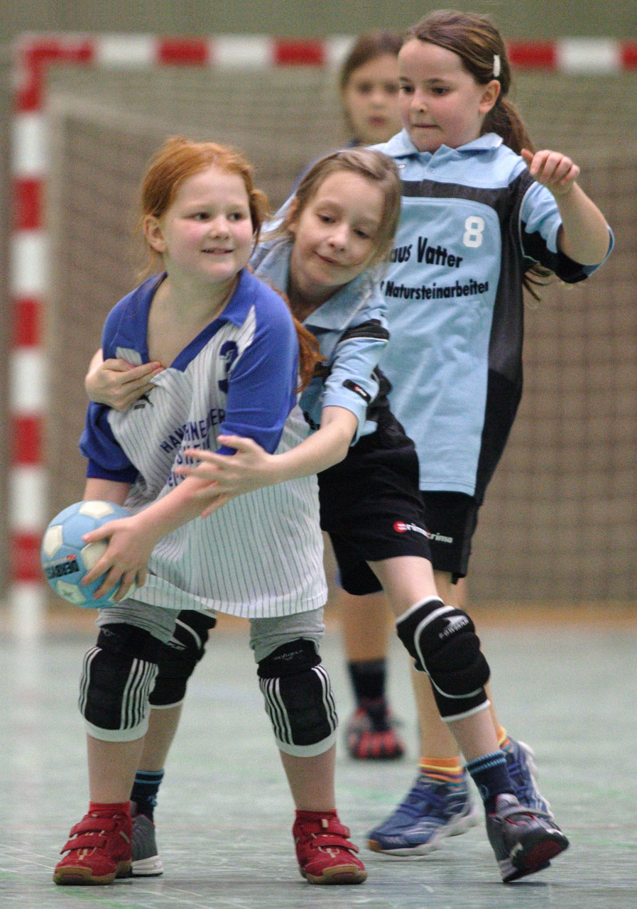 Juvenile handball, girls aged 9 to 10 years. Picture taken in a handball game between HSG Bensheim/Auerbach and HC VfL Heppenheim (both Germany)